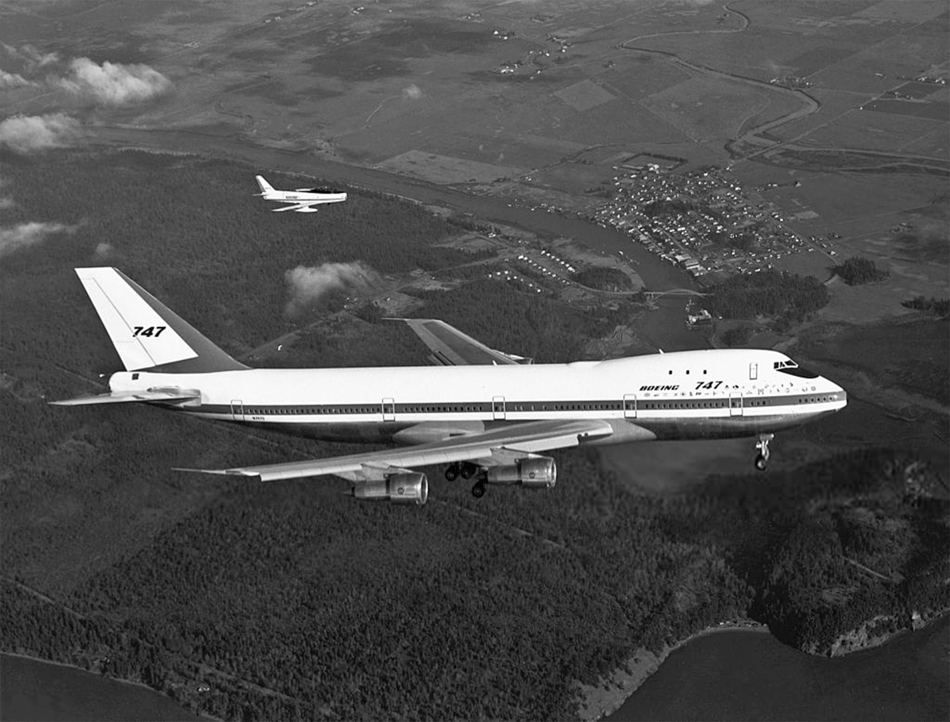 Catalog #: 00062326 Manufacturer: Boeing Designation: 747 Boeing 747 with F-86 Chase Plane on its first flight on February 9, 1969 over the Puget Sound area of Washington State, USA.